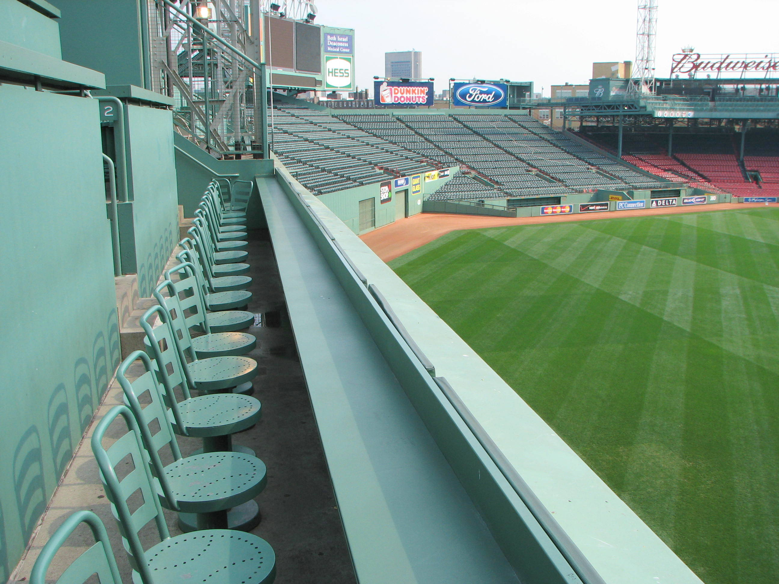 Green Monster seats at Fenway Park, Boston, Massachusetts, USA